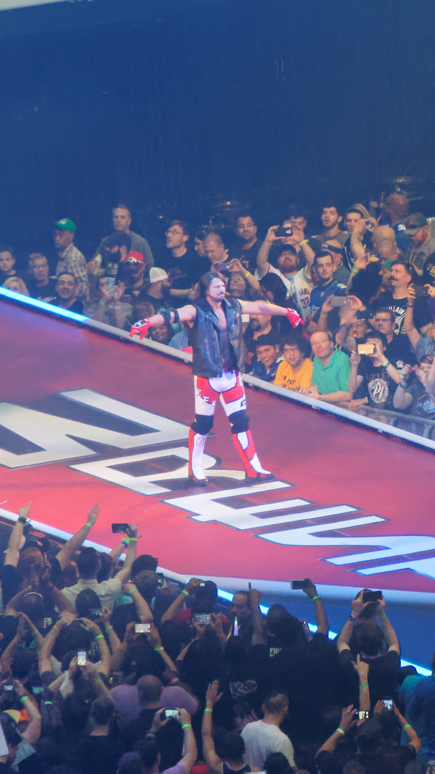 WrestleMania 32 was the thirty-second annual WrestleMania professional wrestling pay-per-view (PPV) event produced by WWE. It took place on April 3, 2016, at AT&T Stadium in Arlington, Texas. Twelve matches were contested on the card (with three matches occurring on the WrestleMania Kickoff pre-show - two airing live on the USA Network, which televised the second hour of the pre-show). Chris Jericho def. (pin) A.J. Styles (in 17:09) Rating : ***3/4